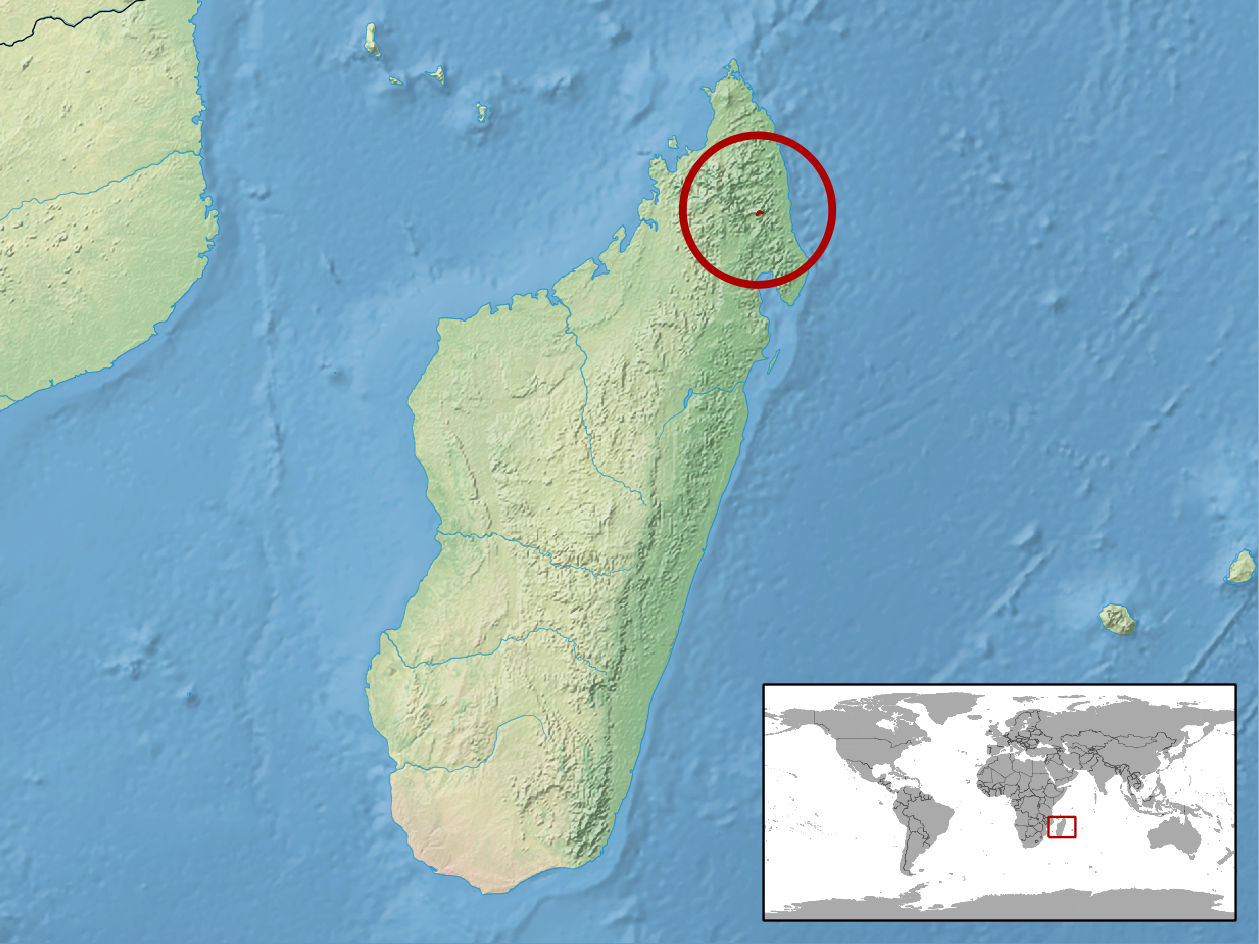 geographic distribution of Calumma jejy (Native: Madagascar)